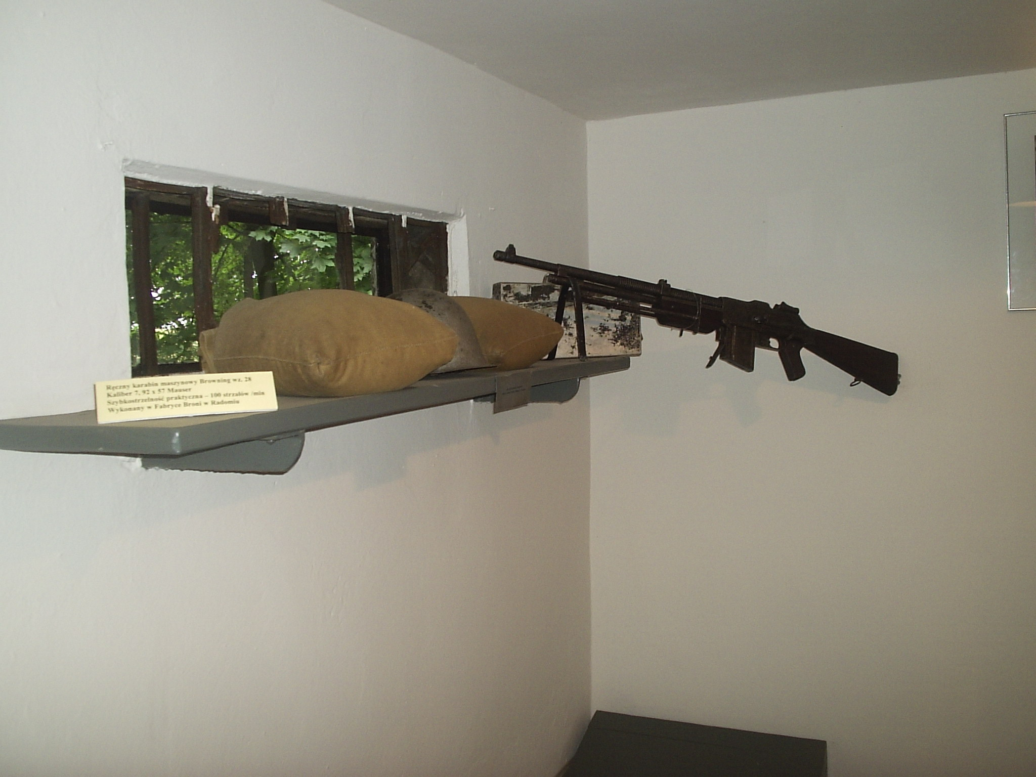 Gdańsk Westerplatte, Poland.